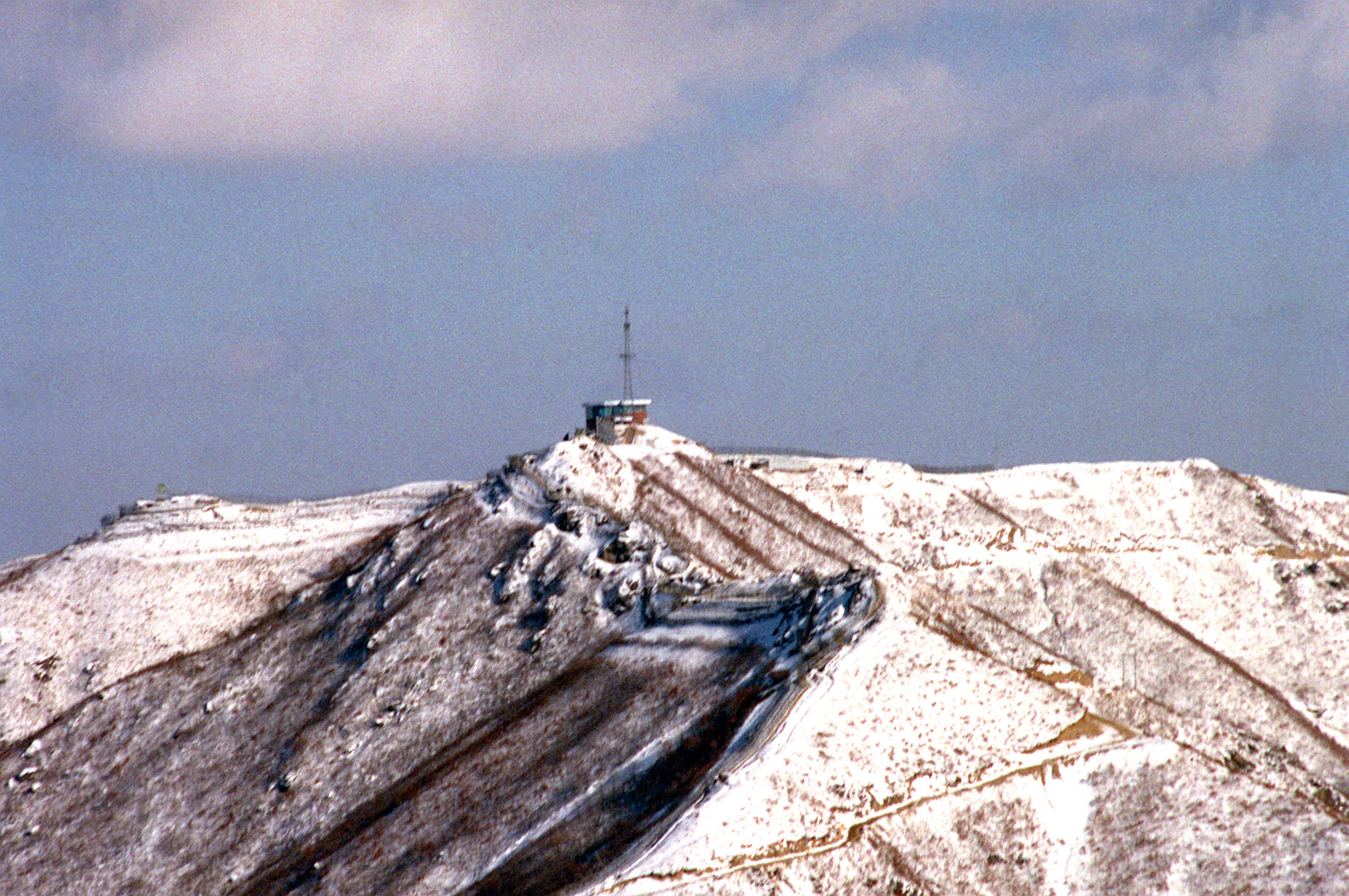 A South Korean observation post overlooks the Punch Bowl area near Kach'il'Bong Peak. South Korean counter-tunnels are being constructed in the area to eliminate the value of North Korean structures by intersecting them.